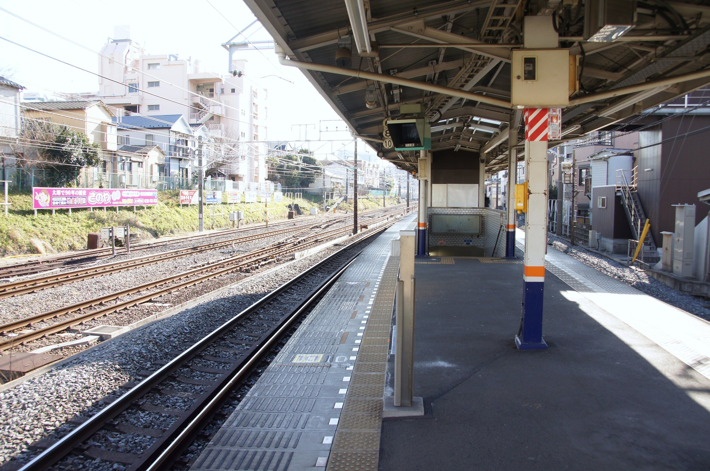 View from the northern end of the platforms of Kita-Ikebukuro Station on the Tobu Tojo Line, looking southward with the JR Saikyo Line tracks on the left